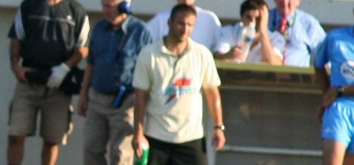 Rob Powell